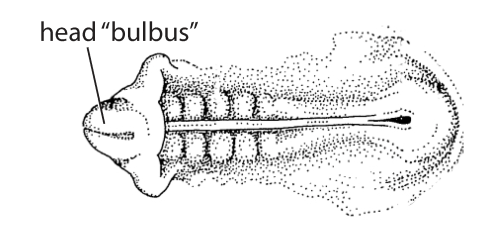 Standard Event System character depiction